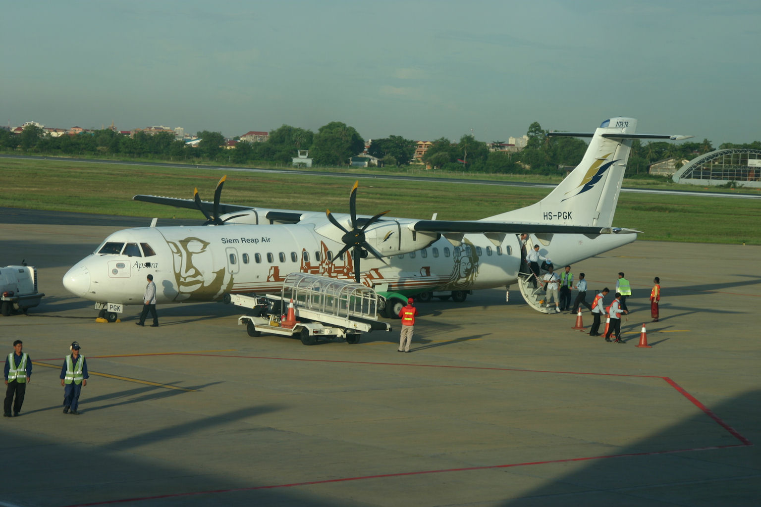 ATR 72 of Siem Reap Airways at Phnom Penh International Airport